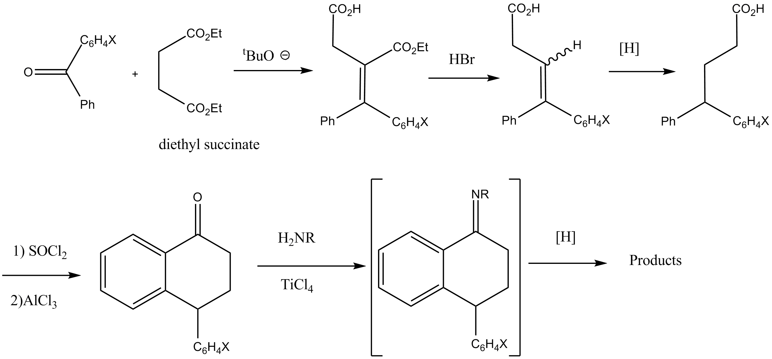 Synthetic Procedure for Tametraline Analogs